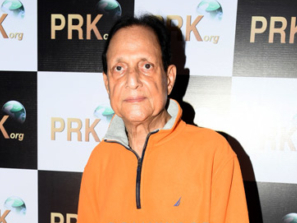 Director Sawan Kumar Tak